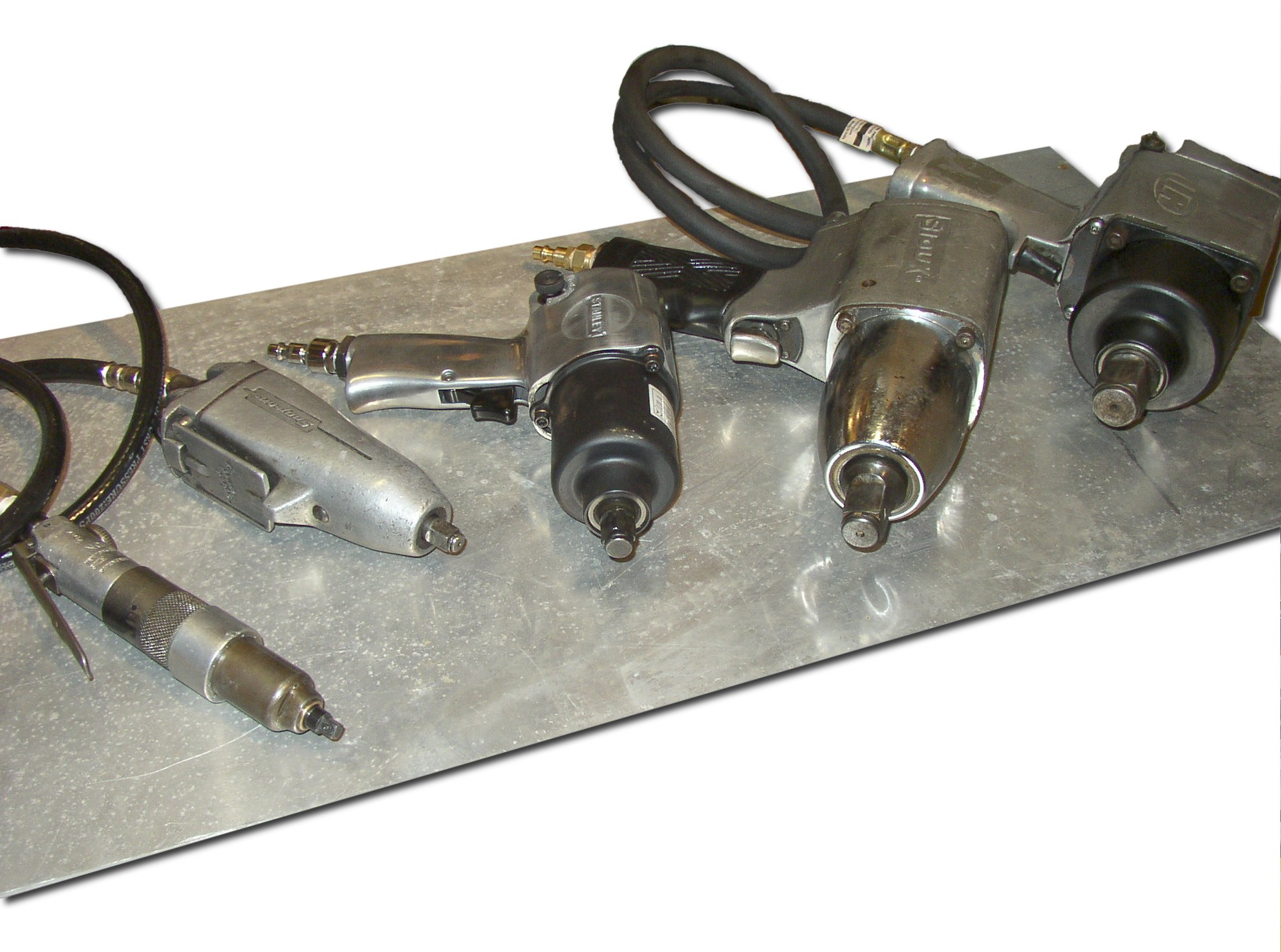 I took this photo myself, of my impact wrenches, and release it under the GFDL.